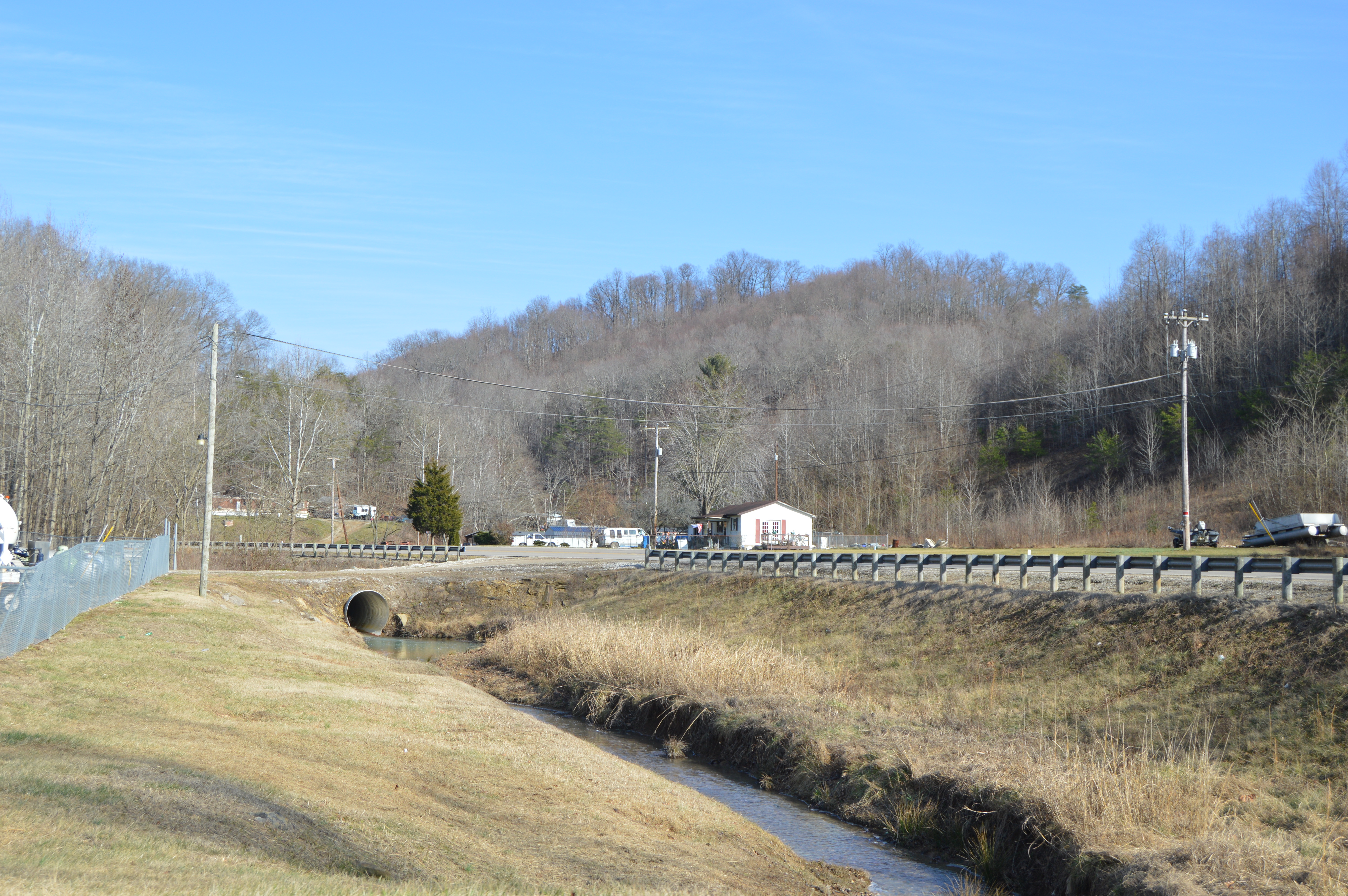 Looking eastward (upstream) along Osborne Run and State Route 650 from the parking lot of Hanging Rock Apostolic Church of God in eastern Hamilton Township, Lawrence County, Ohio, United States.